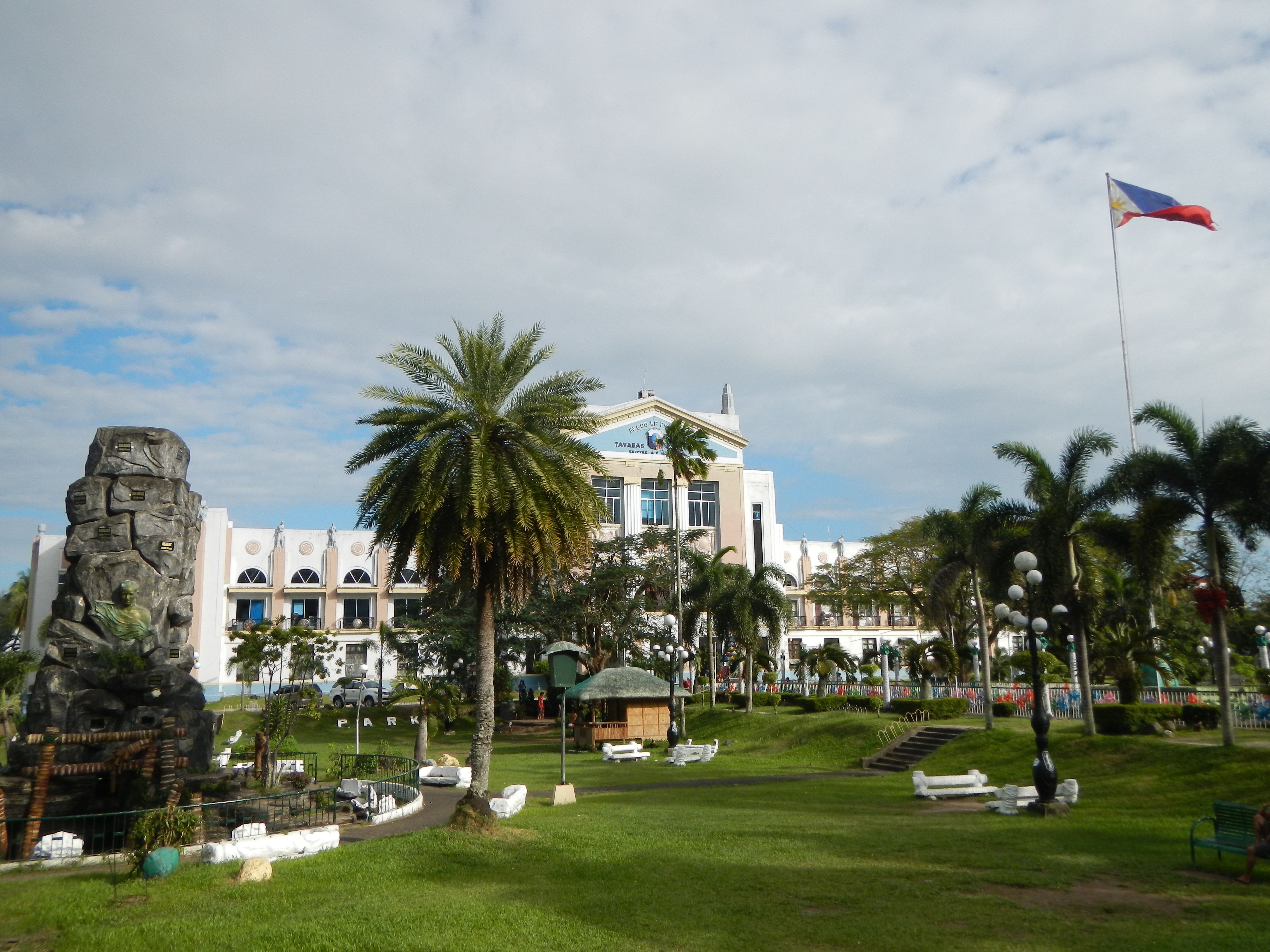 Upload Wizard -- (general description of landmarks, town, church) - Perez Park Complex inside the Tayabas Provincial Capitol both inside the Quezon Government Center in Lucena City Proper, Quezon Province.